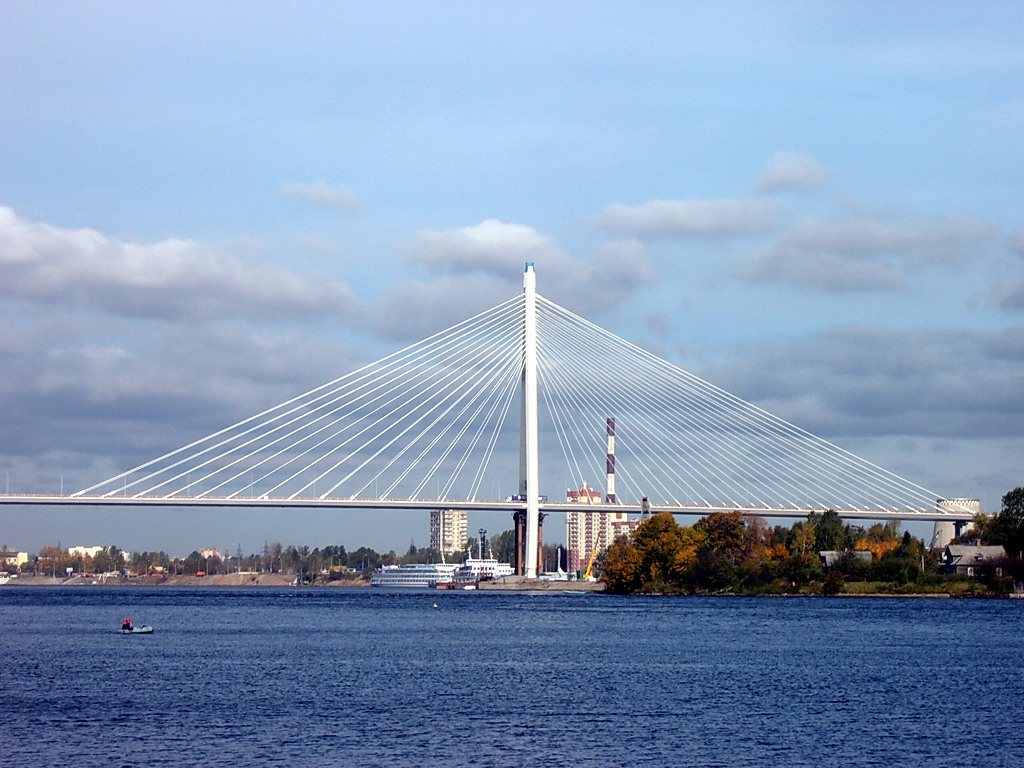 The pylon of Big Obukhovsky Bridge, photograph by Evgeny Gerashchenko.